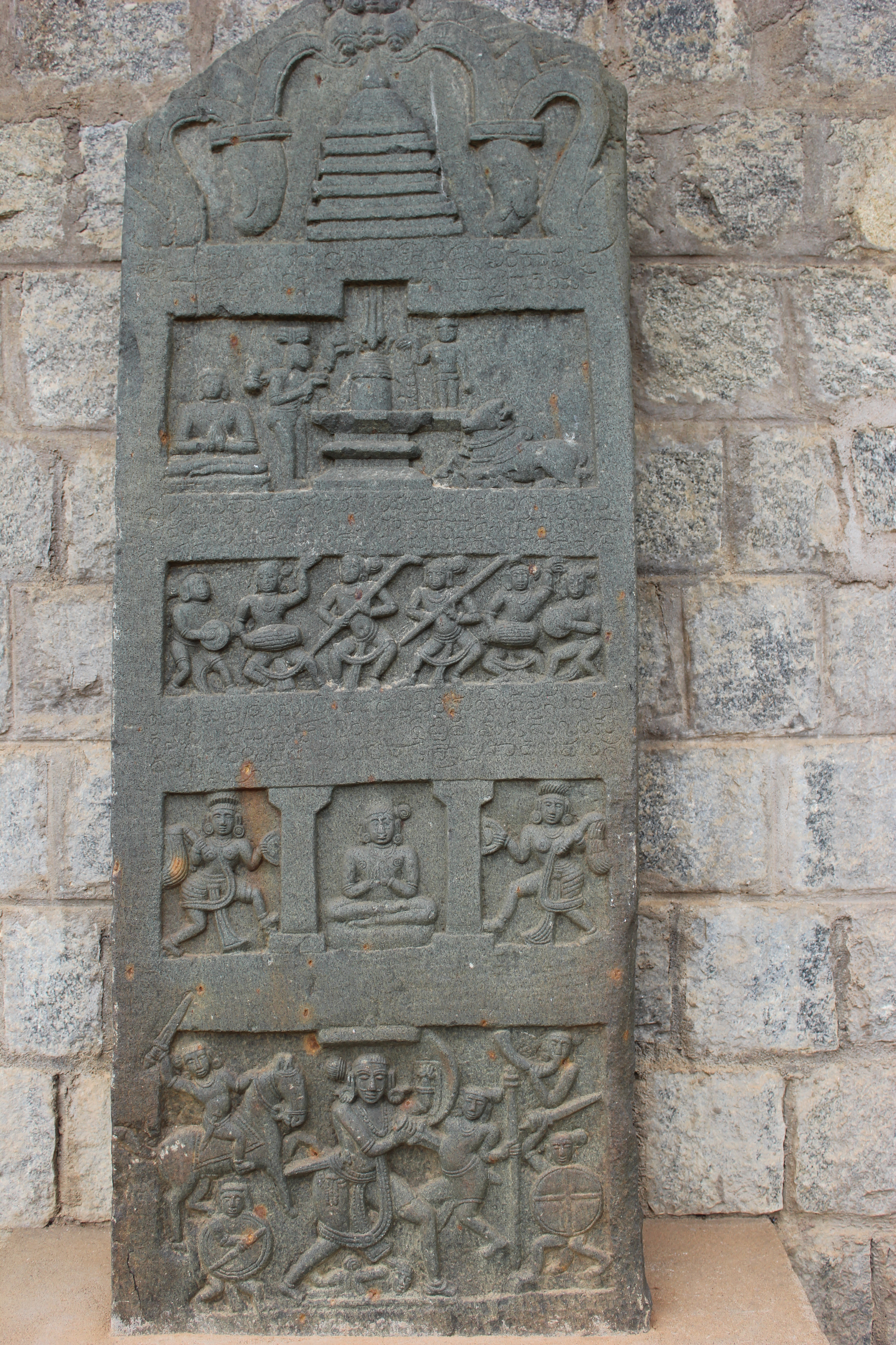 This photograph of a Herostone (virgal) with old Kannada inscription (1205 A.D.) from the rule of Hoysala Empire King Veera Ballala II was taken by me at the Kedareshvara temple (also spelt Kedaresvara or Kedareshwara) in Balligavi (also called variously as Belgami, Belligave, Balligamve and Ballipura in ancient inscriptions) in the Shimoga district of Karnataka state, India. Source: Mysore inscriptions, pg.137, Benjamin Lewis Rice, Director of Public Instruction, Mysore and Coorg, Printed at Mysore Government Press, Bangalore, 1879